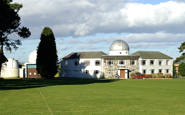 University Observatory St Andrews Observatory was founded in 1962. The large building to the right of shot is the Scott Lang building with the smaller buildings to the left housing other scopes used for research.